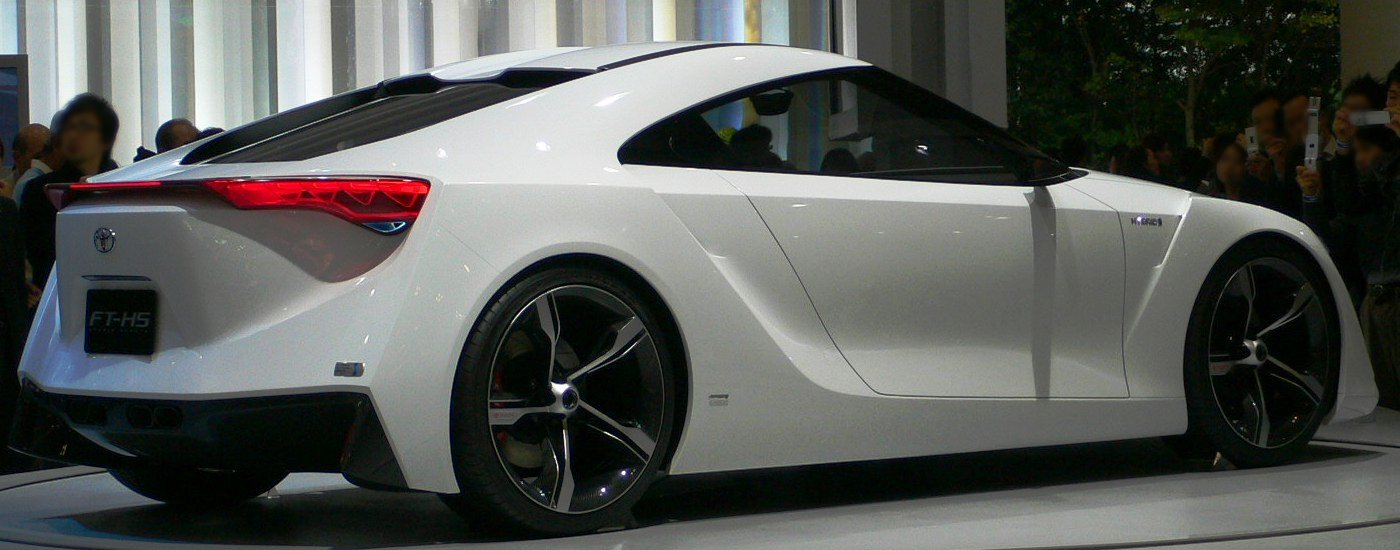 Toyota_FT-HS photographed in Tokyo Motor Show 2007